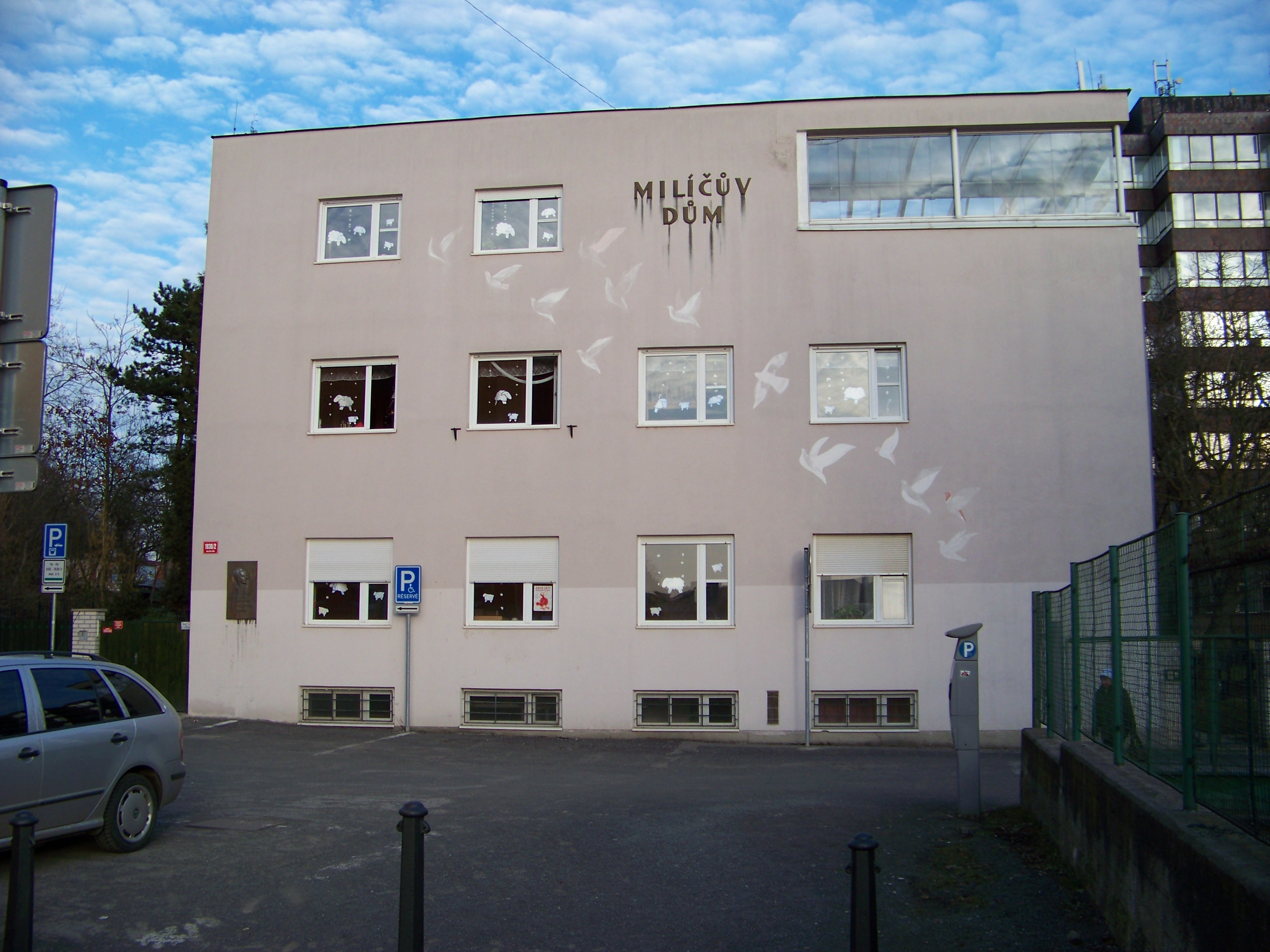 Prague-Žižkov, the Czech Republic. Sauerova 1836/2, Milíč's House.